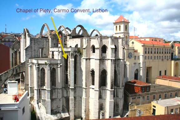 Chapel of Piety at the Convent of Carmo in Lisbon, Portugal, burial place of Filipa Moniz, wife of Christopher Columbus